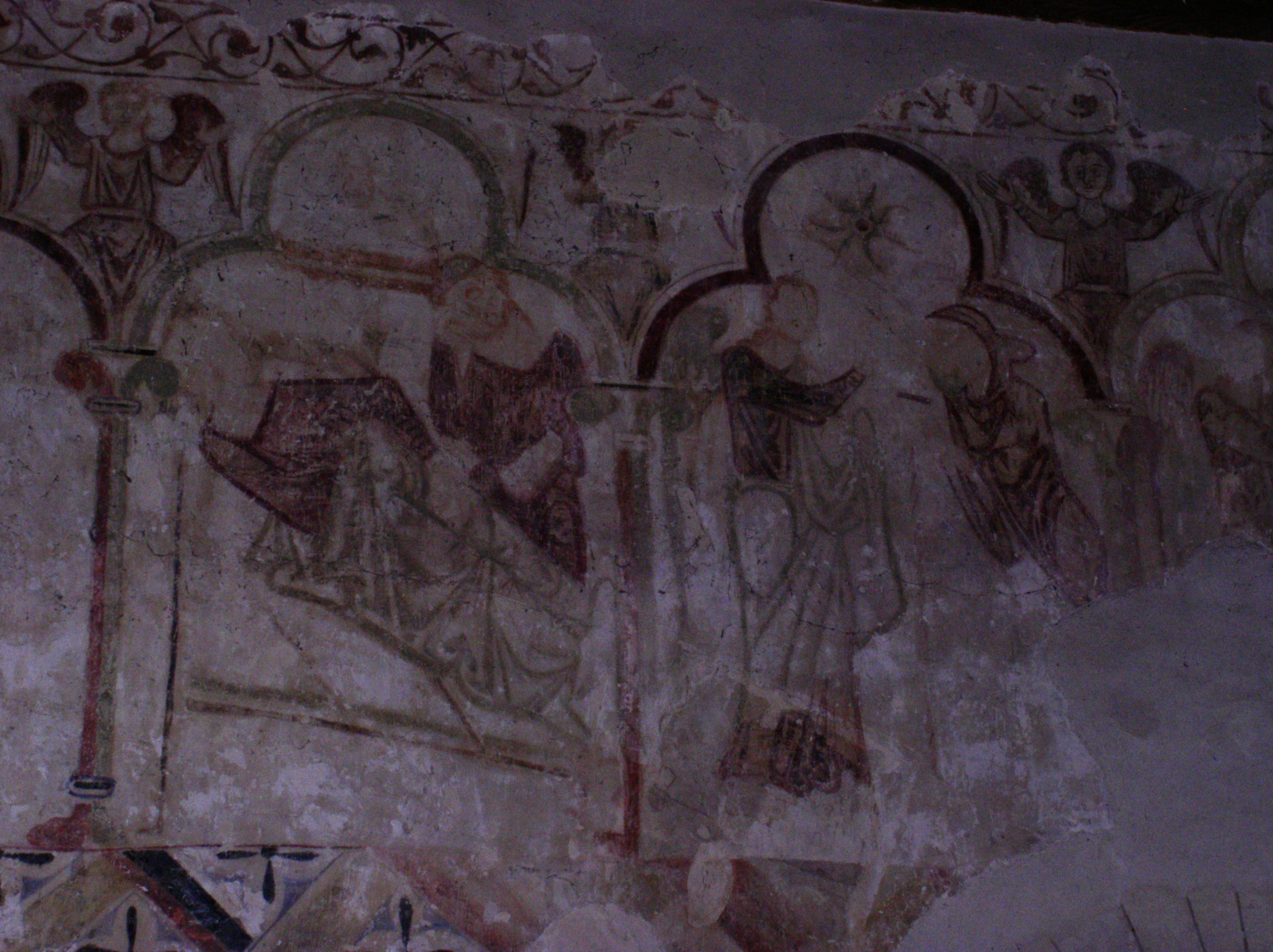 Wall painting of the Nativity with angels and shepherd in St Mary's Church, West Chiltington, West Sussex, England